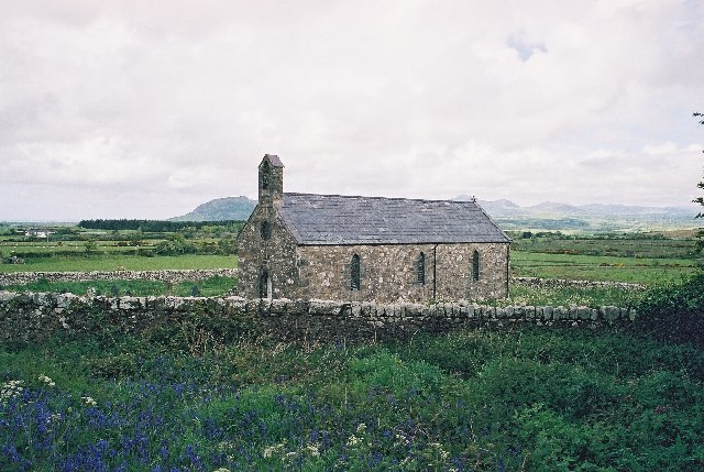 Llanfihangel Bachellaeth church. Now an artist's studio.